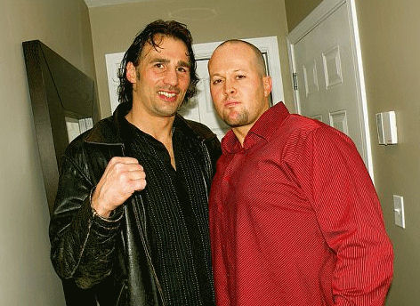 Photo of Richie Lamontagne & John Quinlan from Erik Buker's 30th birthday bash taken on February 28, 2009. Buker is Quinlan's first cousin.